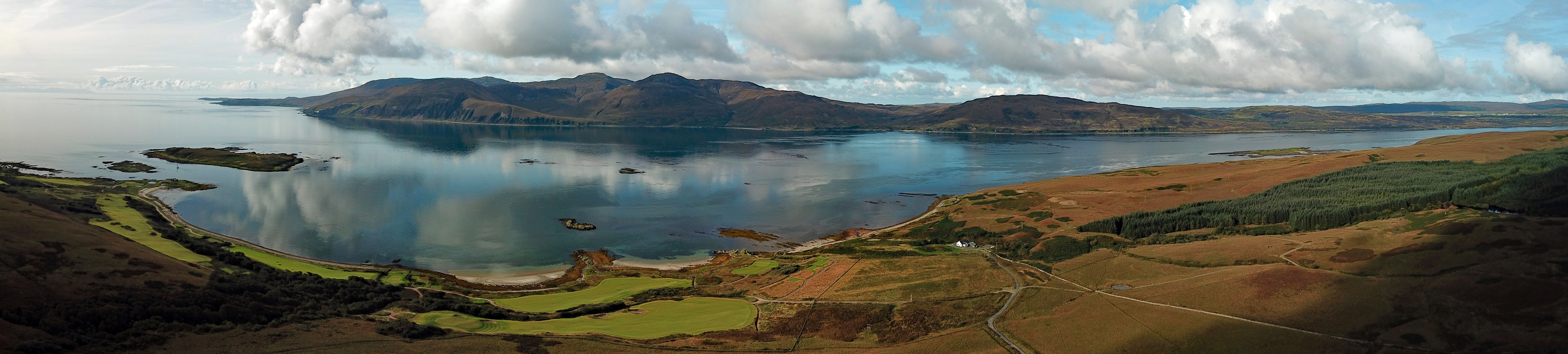 Sound of Islay from Jura